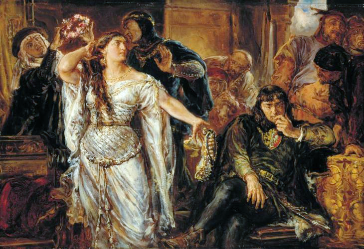 Gryfina of Halich and Leszek II the Black